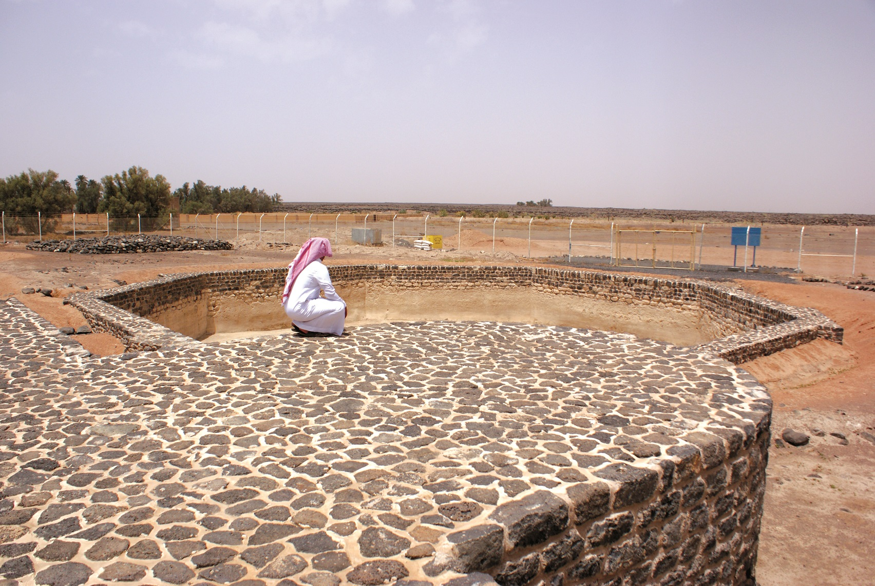 SONY DSCاثار درب زبيدة